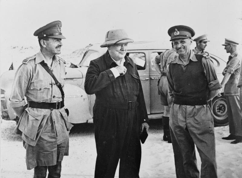 Winston Churchill in North Africa, August 1942 Winston Churchill with General Harold Alexander and Lieutenant General Bernard Montgomery, Commander-in-Chief 8th Army, during his second visit to the Western Desert, 23 August 1942.